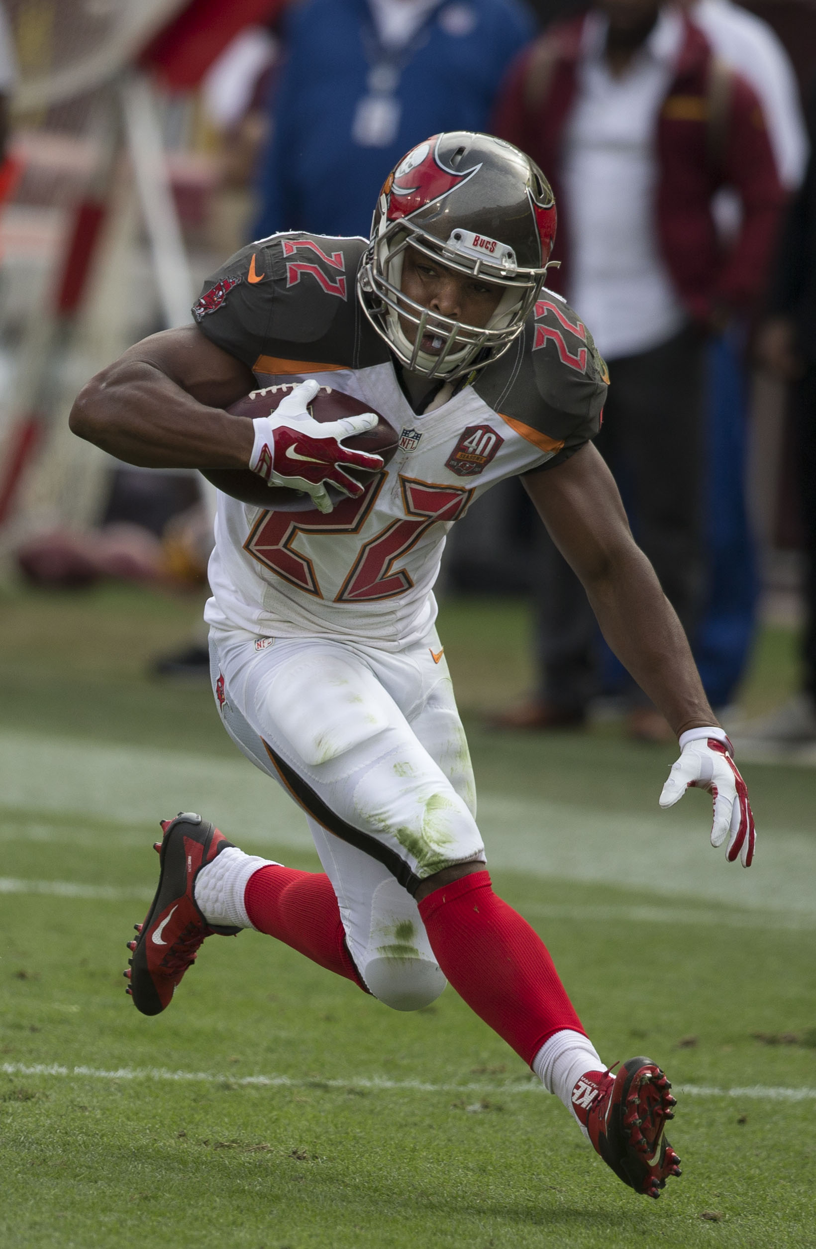 Buccaneers at Redskins 10/25/15